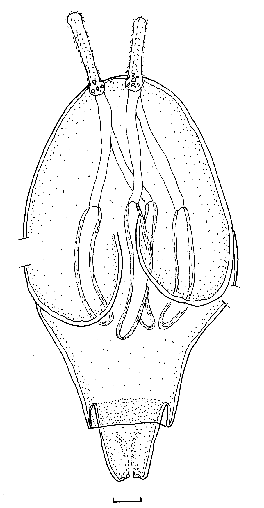 Figure 11 (top) of paper. Nybelinia basimegacantha Carvajal, Campbell & Cornford, 1976, specimen from Neoniphon sammara